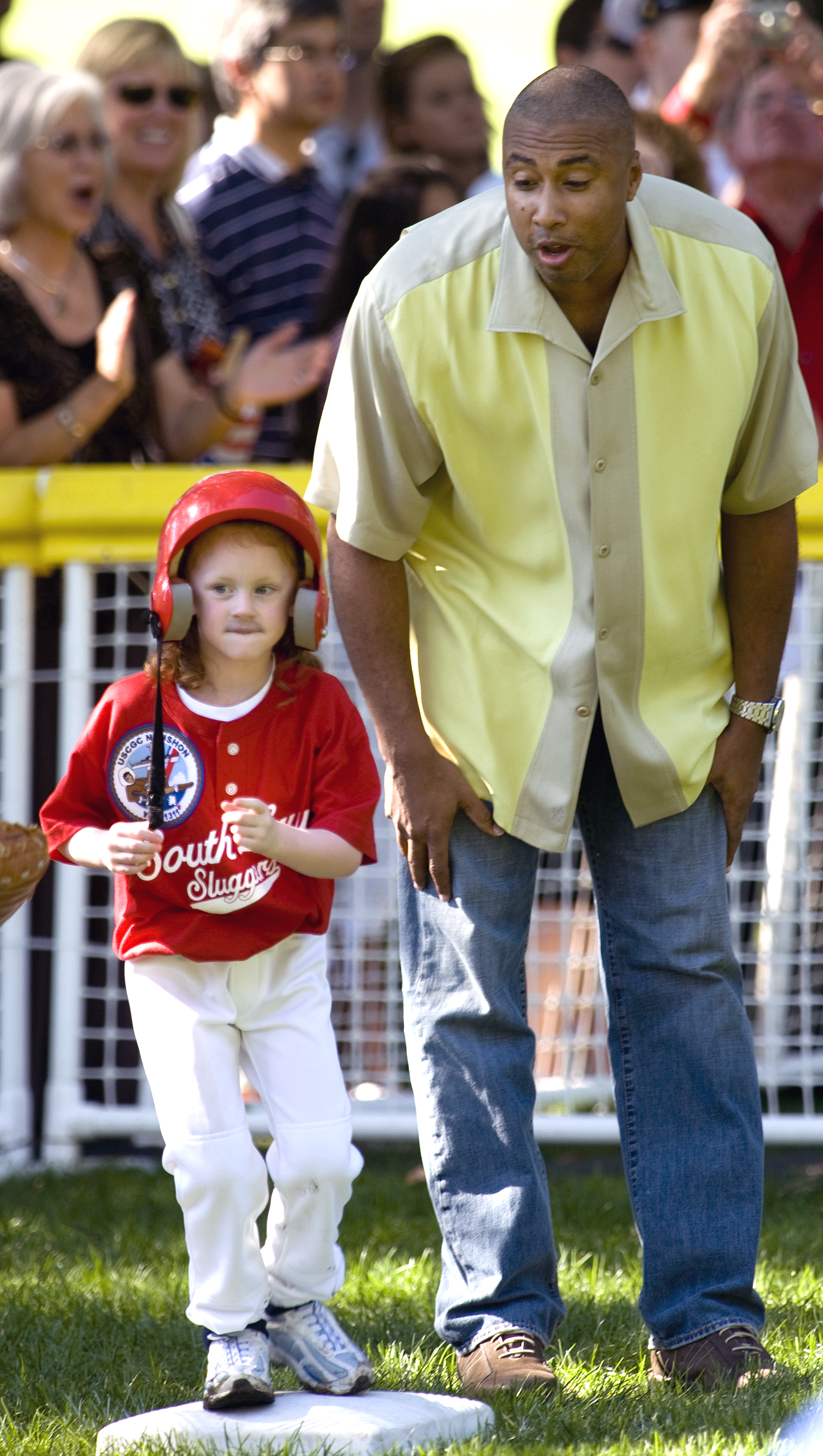 New York Yankee great Bernie Williams coaches Cassie Frank at first base during the 20th Tee Ball on the South Lawn of the White House, Sept. 7, 2008. The game honored families in the armed services and players had parents who are currently serving on active duty in the Army, Navy, Air Force, Marines or Coast Guard.